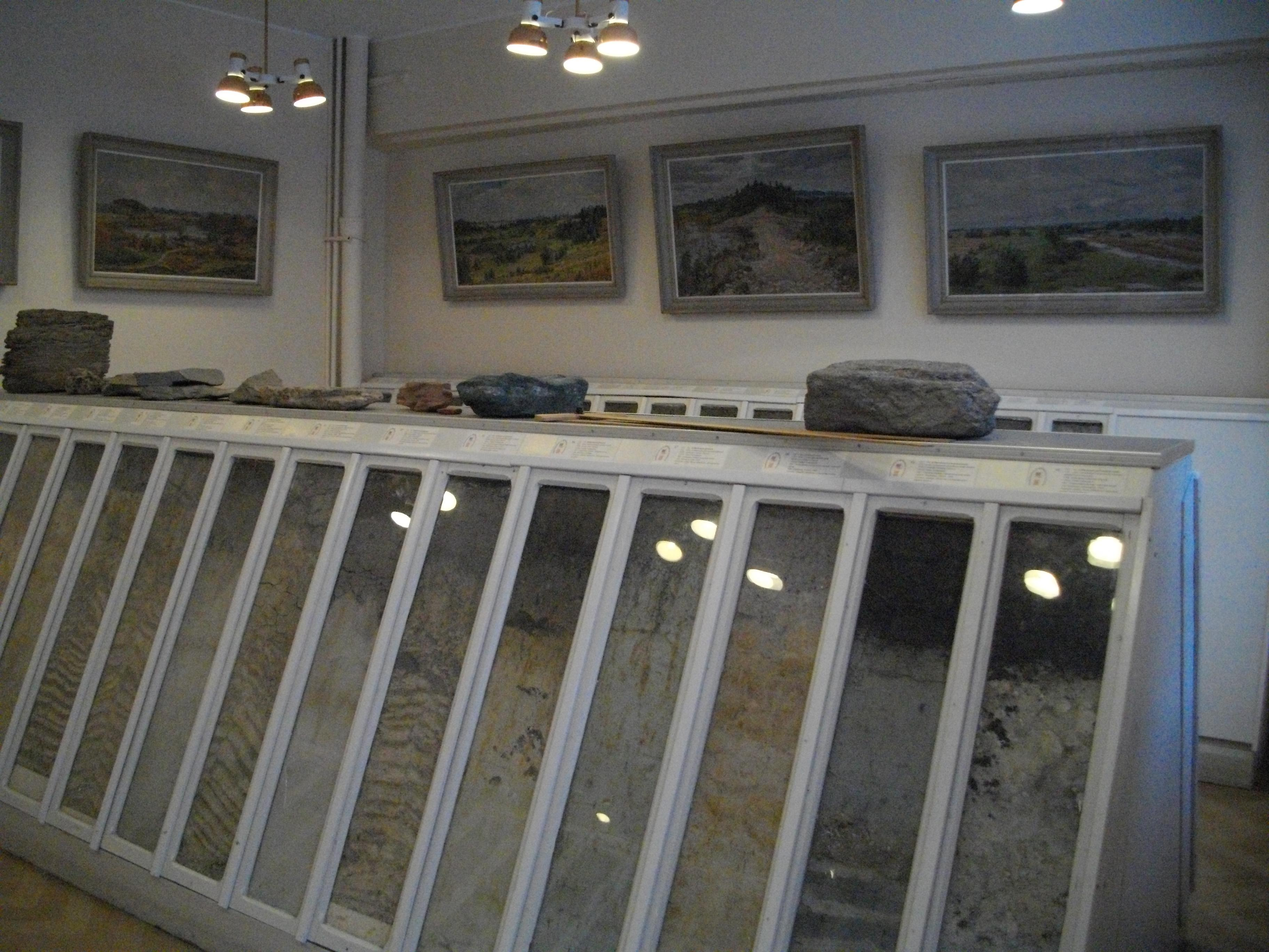 Soil profiles, Soil Museum at the Estonian University of Life Sciences